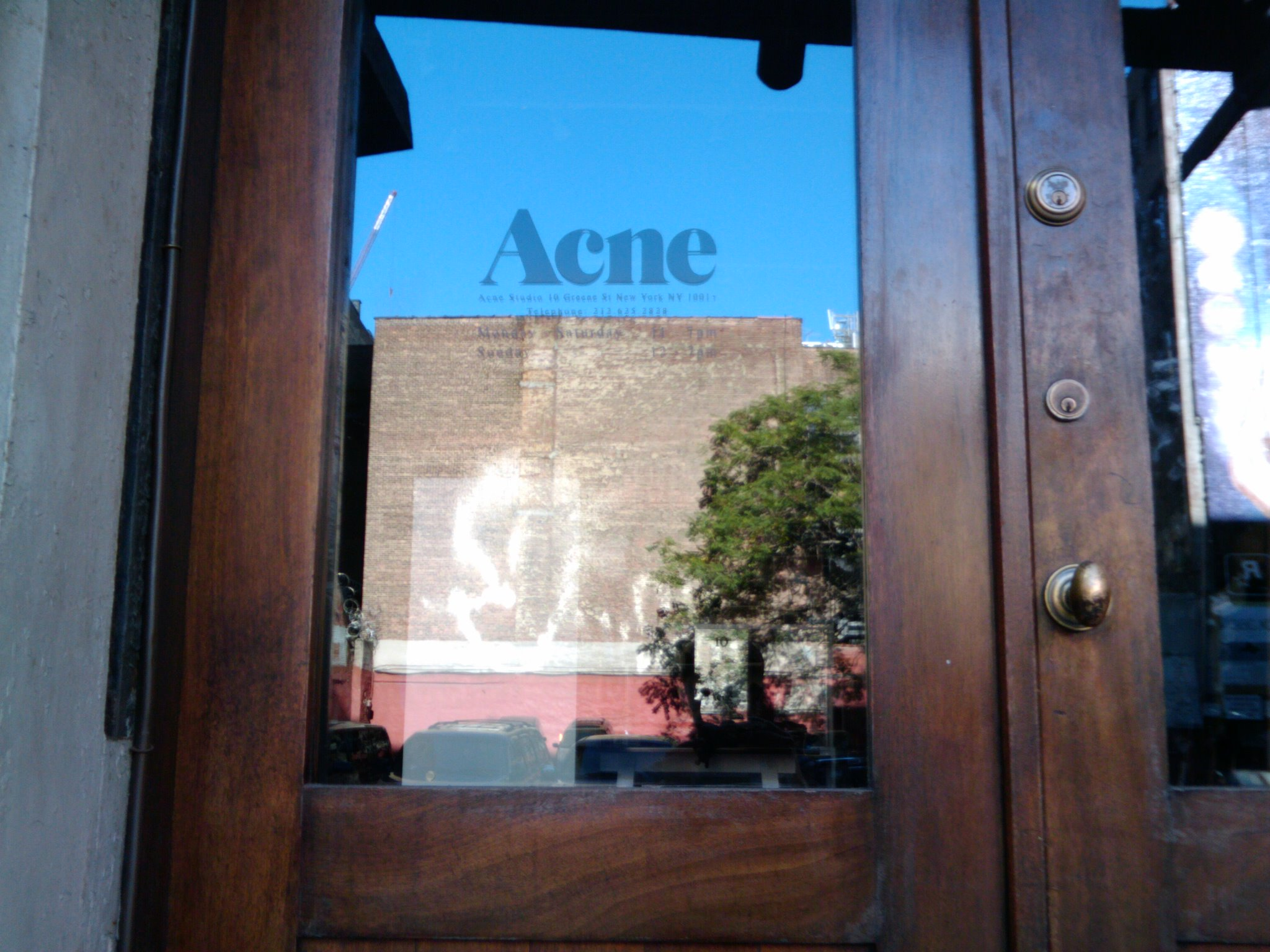 Store of Swedish fashion brand Acne, possibly in Sweden.